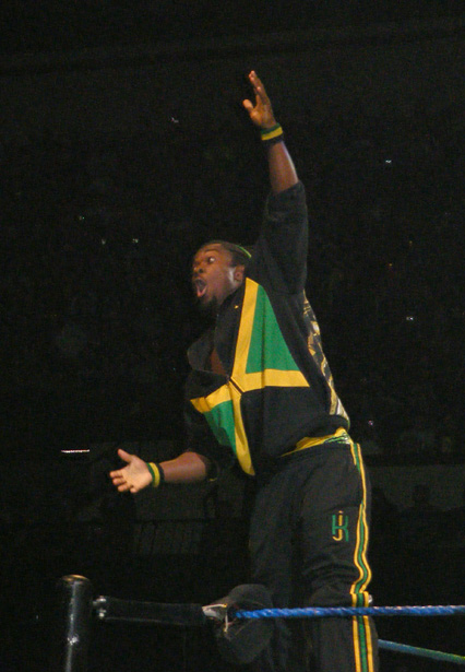 Kofi Kingston @ Adelaide, South Australia 'Smackdown/ECW' house show on the 14th of June '08